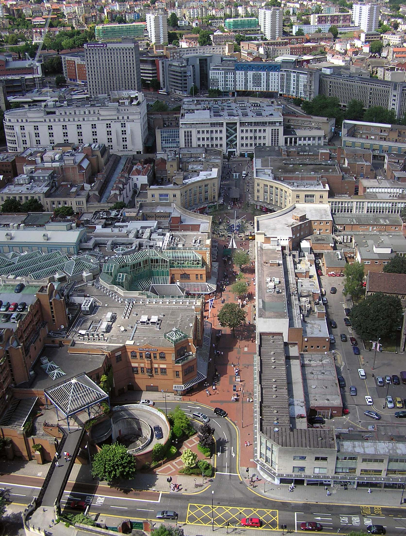 Looking north-west across the Broadmead Shopping Centre, Bristol, from a static balloon at 500 feet. This was the centre of the mediaeval ancient walled city of Bristol, destroyed by German bombing in WWII. The remains of Bristol Castle are situated just below the bottom left margin of the image. The southern abutment of the overpass footbridge is crenellated, as visbile here, as a modern reference to its position. Left central is the complex glass roof of the Galleries indoor shopping centre. In the centre of the picture is the Hub, a circular open space used for entertainments. Immediately above the Hub is Debenhams department store. The boat-shaped House of Fraser store is to the left of Debenhams (the words "House of Fraser" can be read on the 1672px picture).